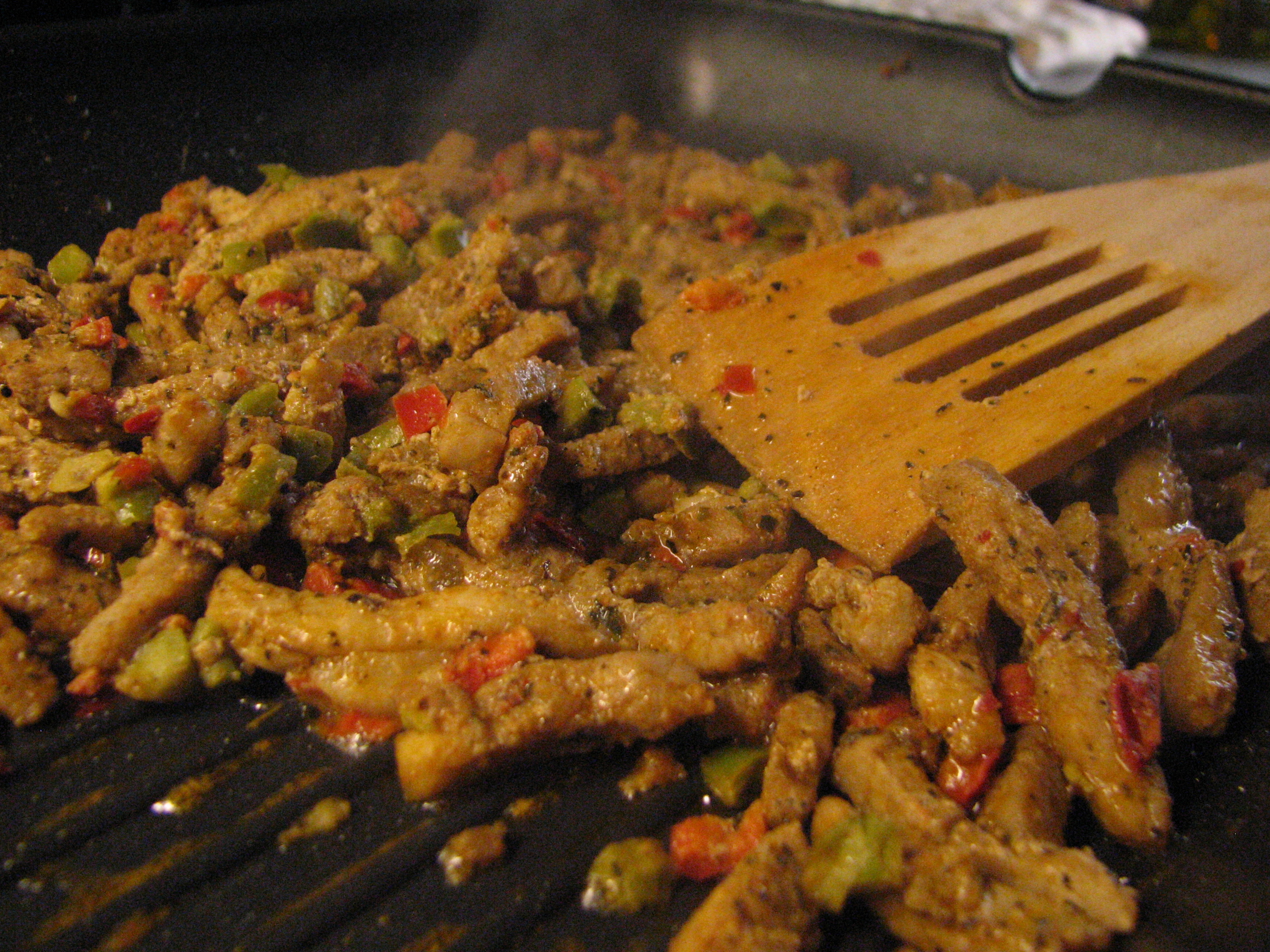 Shawarma meat